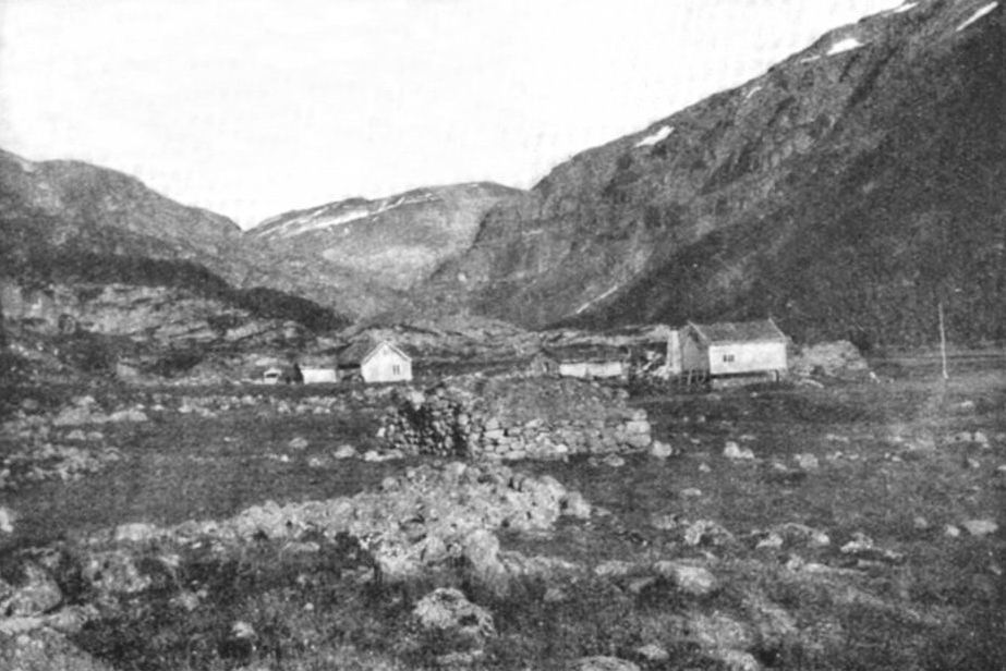 Østerbø mountain farms before the turn of the 20th century, Aurlandsdalen, Aurland parish, Sogn og Fjordane county, Norway.